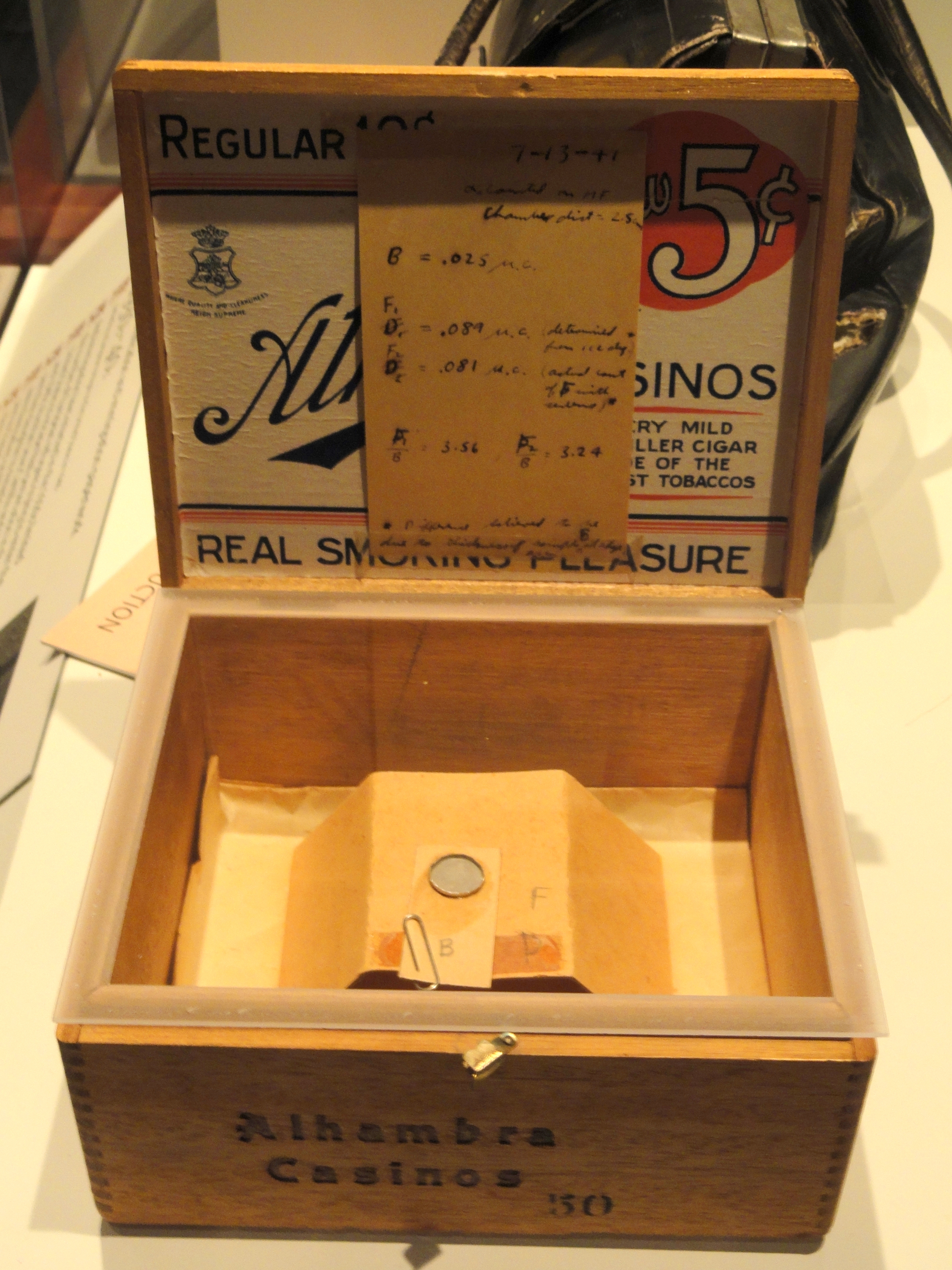 Exhibit in the National Museum of American History, Washington, DC, USA. This item is in the public domain because it is property of the national museum.